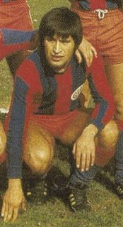 This is a photograph of Oscar Ortiz taken during his time with San Lorenzo in Argentina. He played his last game for the club in 1976